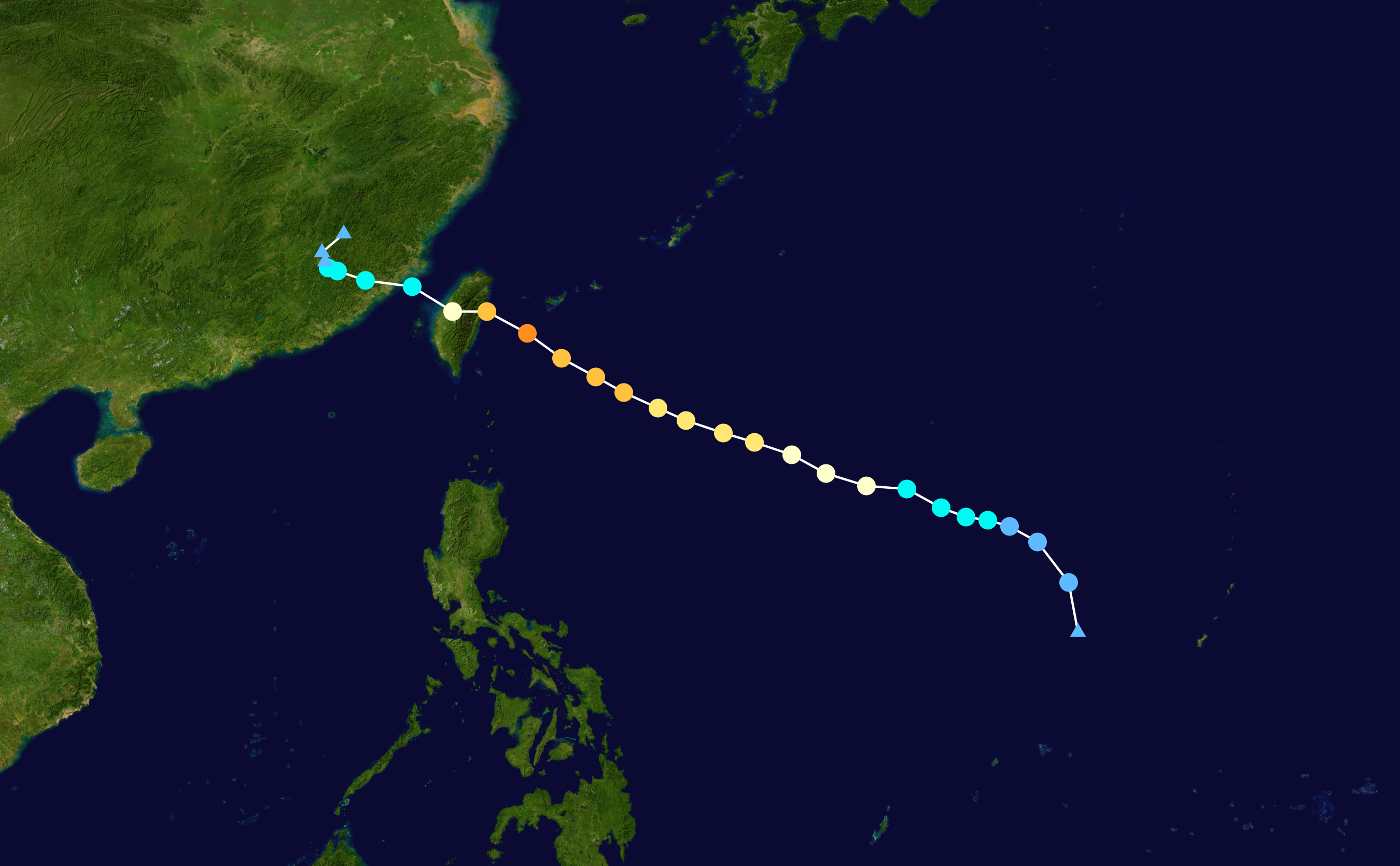 Track map of Typhoon Megi of the 2016 Pacific typhoon season. The points show the location of the storm at 6-hour intervals. The colour represents the storm's maximum sustained wind speeds as classified in the Saffir–Simpson scale (see below), and the shape of the data points represent the nature of the storm, according to the legend below. Saffir–Simpson scale Tropical depression≤38 mph≤62 km/h Category 3111–129 mph178–208 km/h Tropical storm39–73 mph63–118 km/h Category 4130–156 mph209–251 km/h Category 174–95 mph119–153 km/h Category 5≥157 mph≥252 km/h Category 296–110 mph154–177 km/h Unknown Storm type Tropical cyclone Subtropical cyclone Extratropical cyclone / Remnant low / Tropical disturbance / Monsoon depression